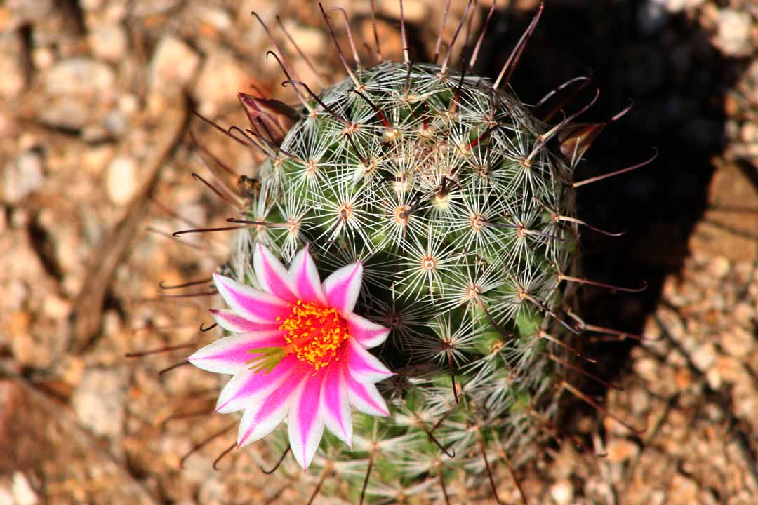 Arizona Desert Cactus Flower